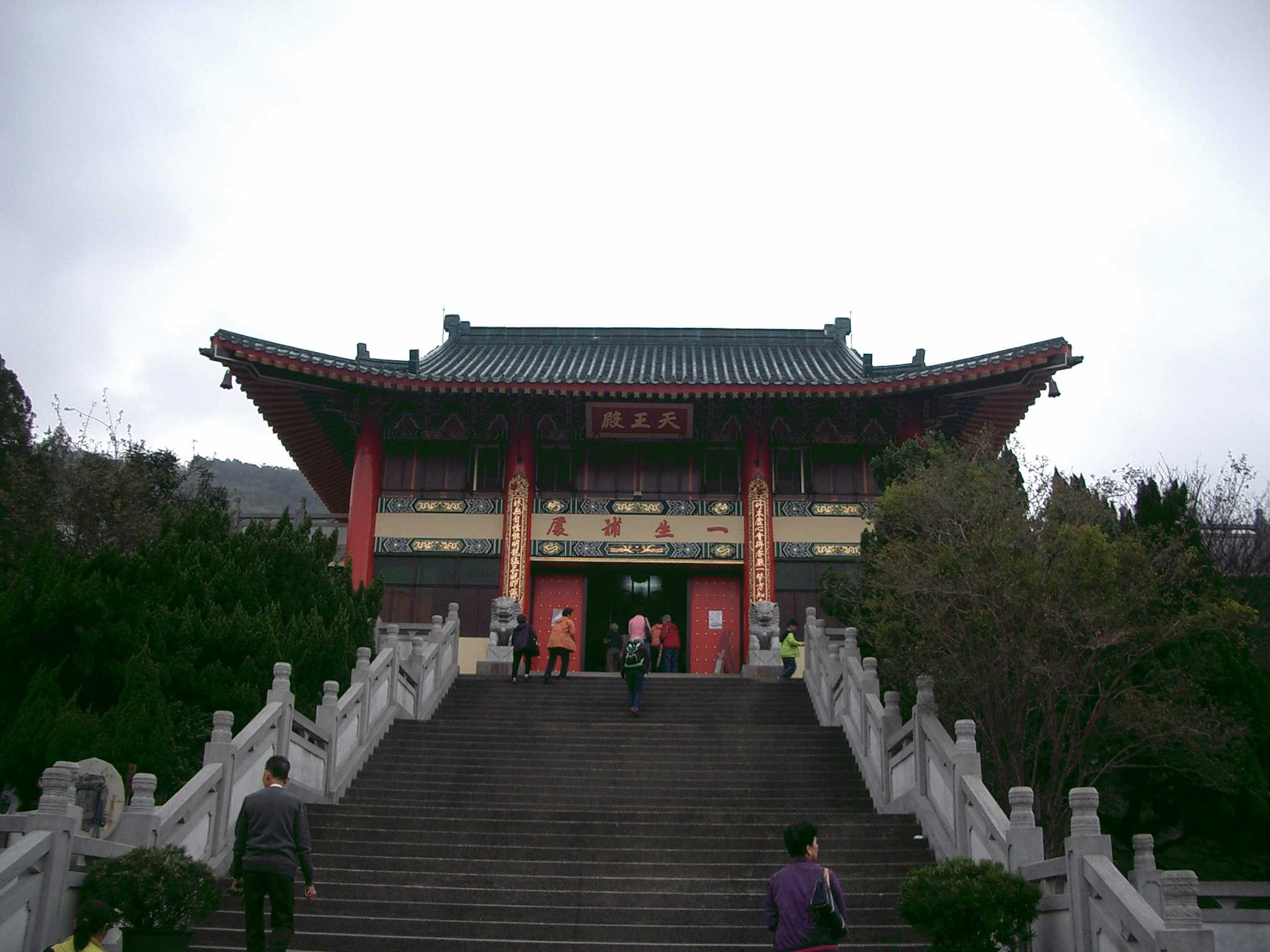 Tin Wong Hall, Chuk Lam Sim Monastery, Fu Yung Shan, Tsuen Wan, Hong Kong